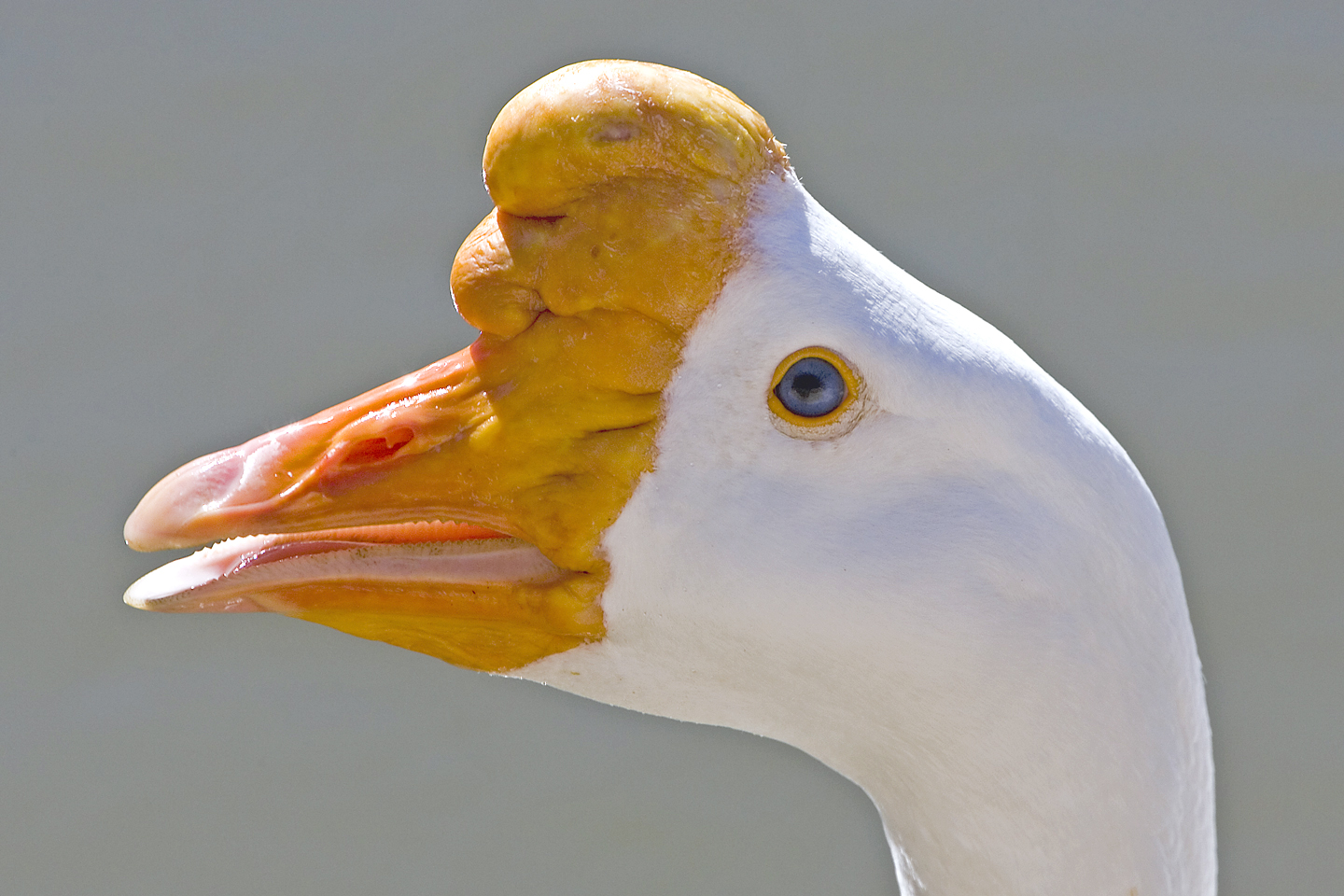 Swan "Chinese" Goose (Anser cygnoides), Cibolo Canal, Boerne, Texas